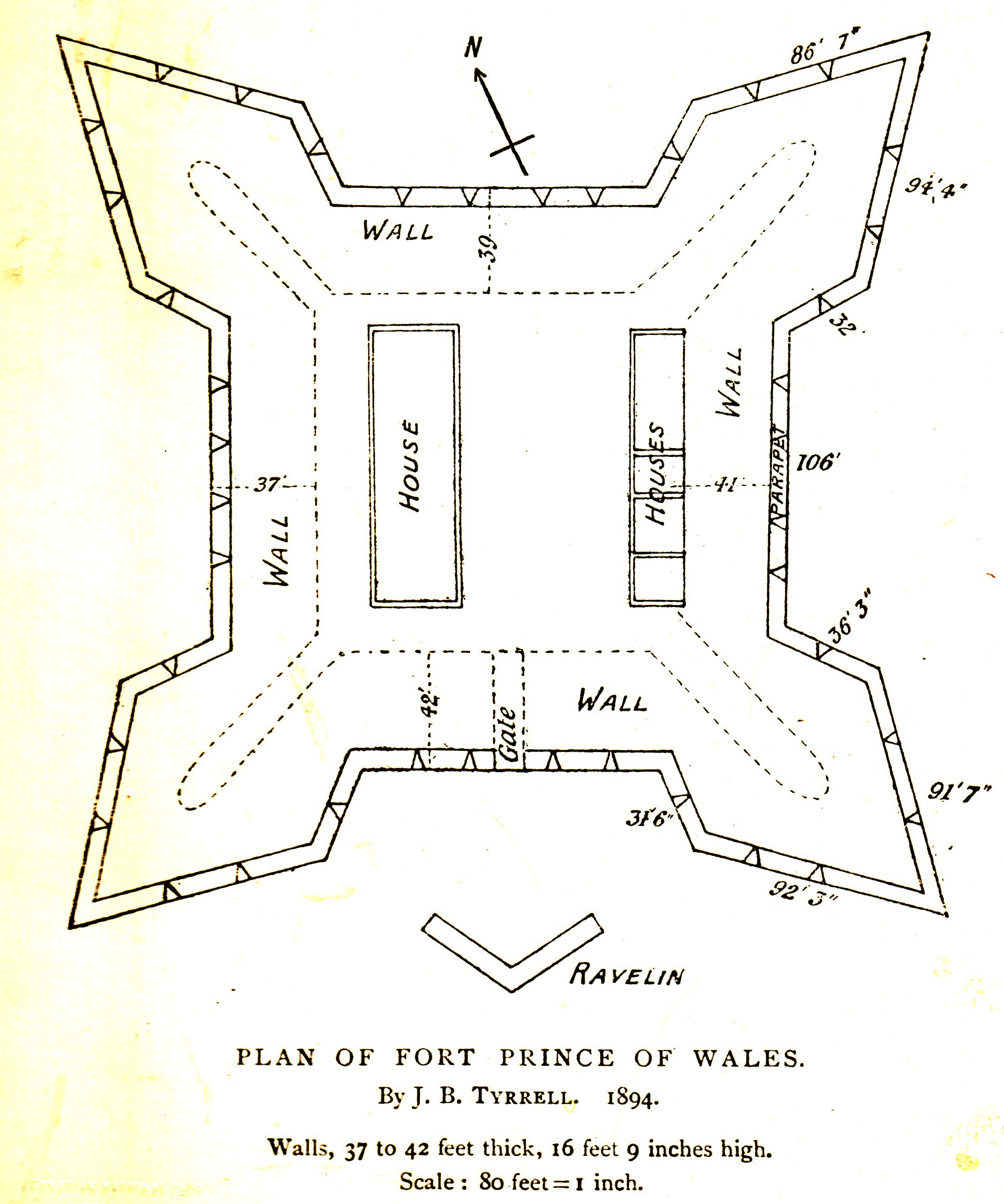 Information added by Wikimedia users. plan of Fort Prince of Wales by J. B. Tyrrell